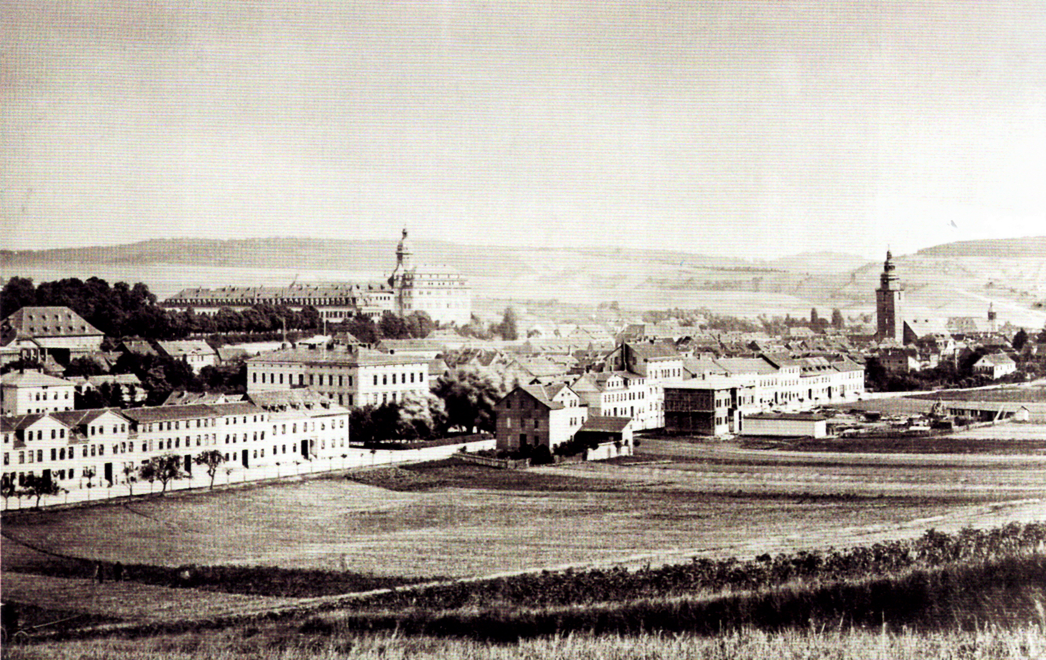 historical picture of Sondershausen